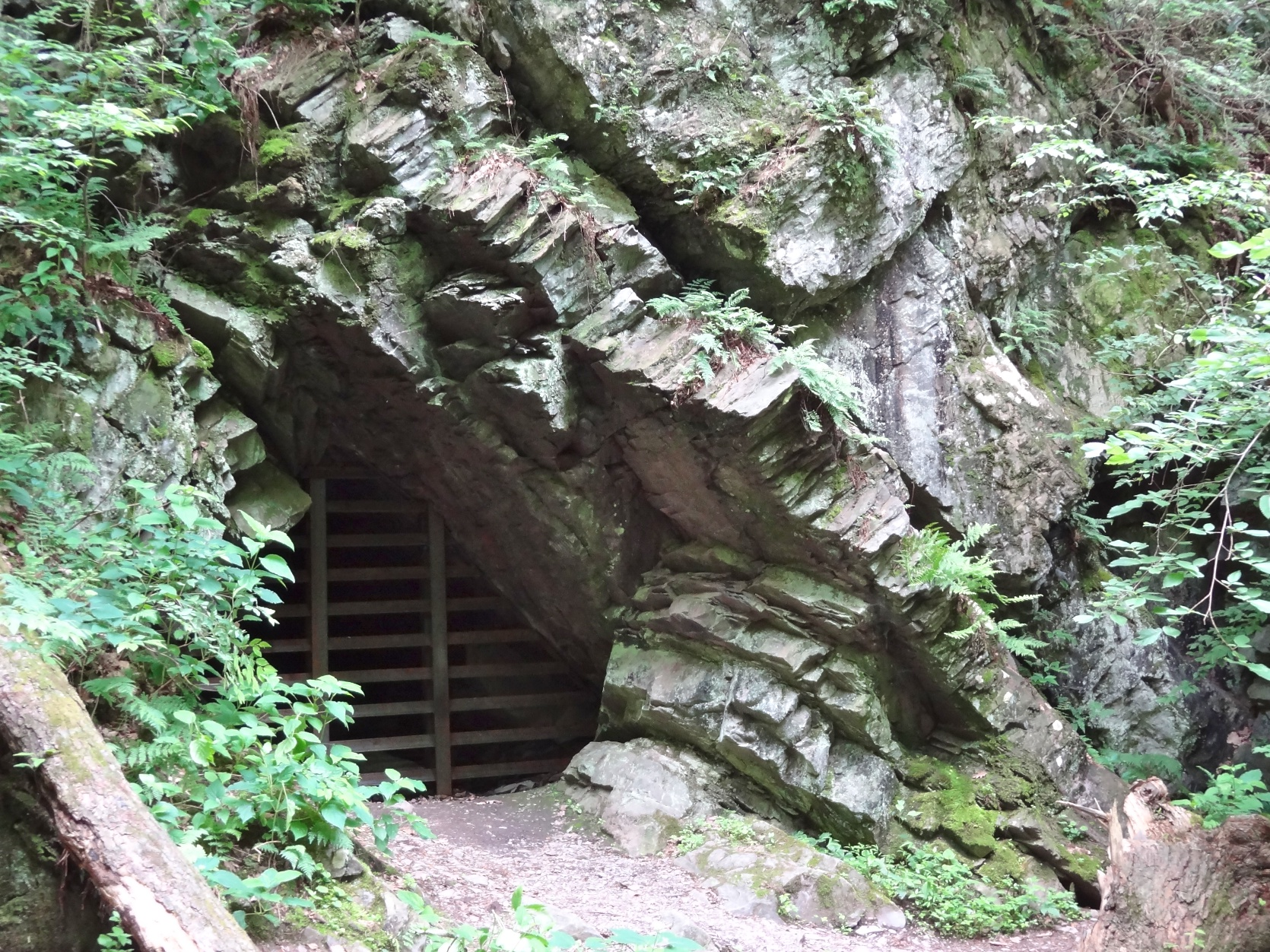 Adit Number 1 at Pahaquarry Copper Mine. Probably dates from the 1750s.